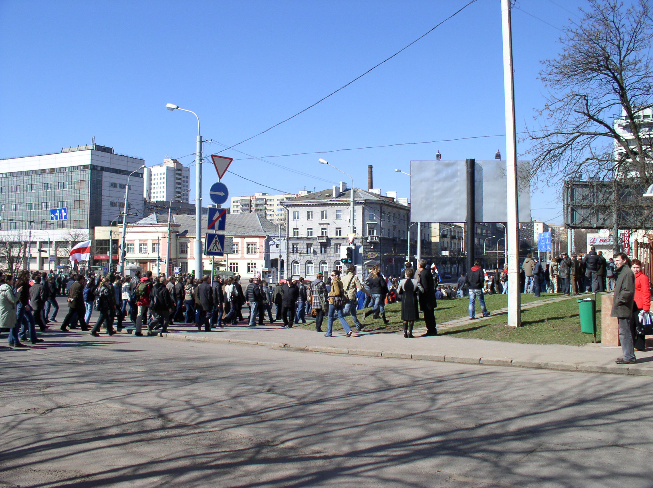 Opposition rally, March 25, 2007. Minsk, Belarus.